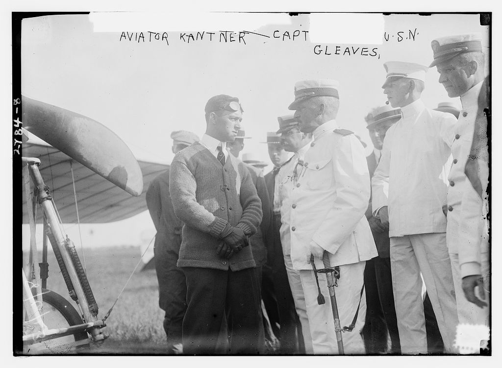 Bain News Service,, publisher. Harold D. Kantner and Albert Gleaves [between ca. 1910 and ca. 1915] 1 negative : glass ; 5 x 7 in. or smaller. Notes: Title from unverified data provided by the Bain News Service on the negatives or caption cards. Forms part of: George Grantham Bain Collection (Library of Congress). Format: Glass negatives. Repository: Library of Congress, Prints and Photographs Division, Washington, D.C. 20540 USA, General information about the Bain Collection is available at Persistent URL: Call Number: LC-B2- 2784-8